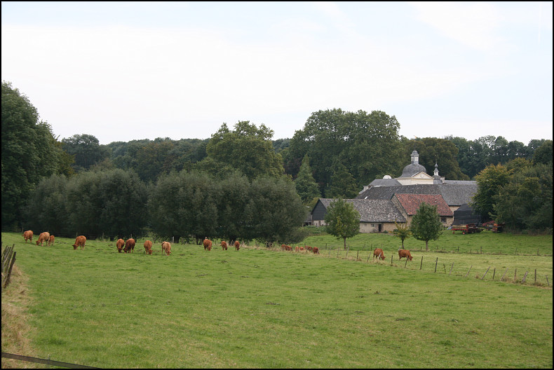 Castle of Eys